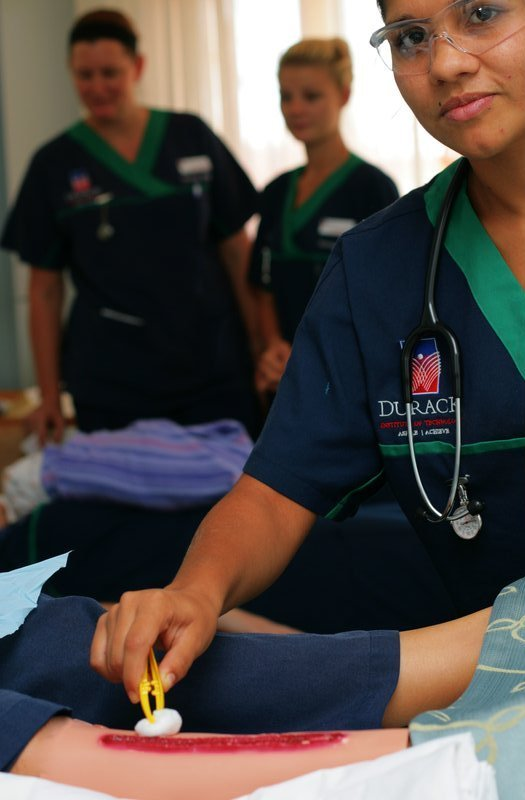 Student enrolled nurse attending a wound dressing while on practicum at a private hospital.